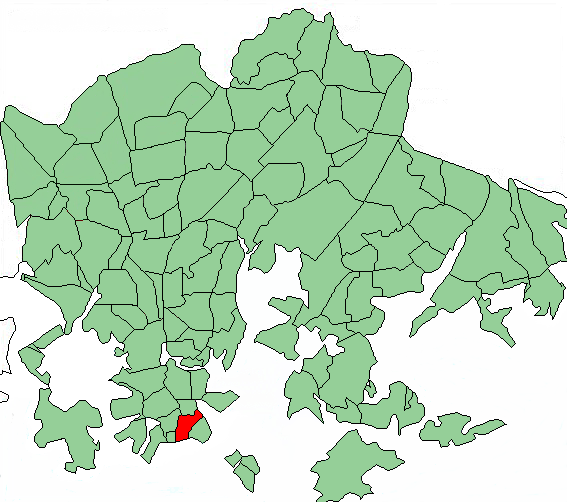 Map of Helsinki highlighting Ullanlinna